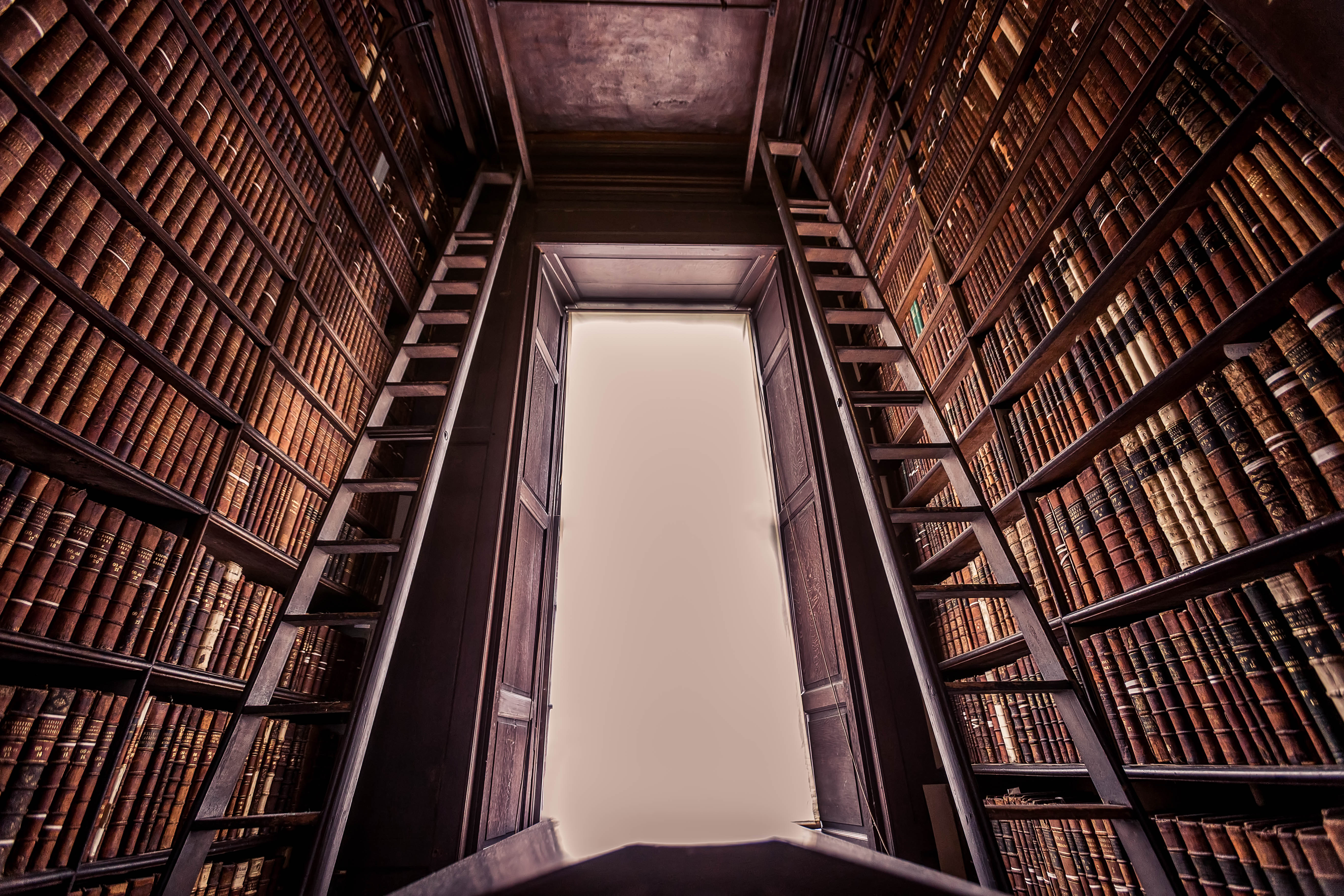 Long Room-Trinity College